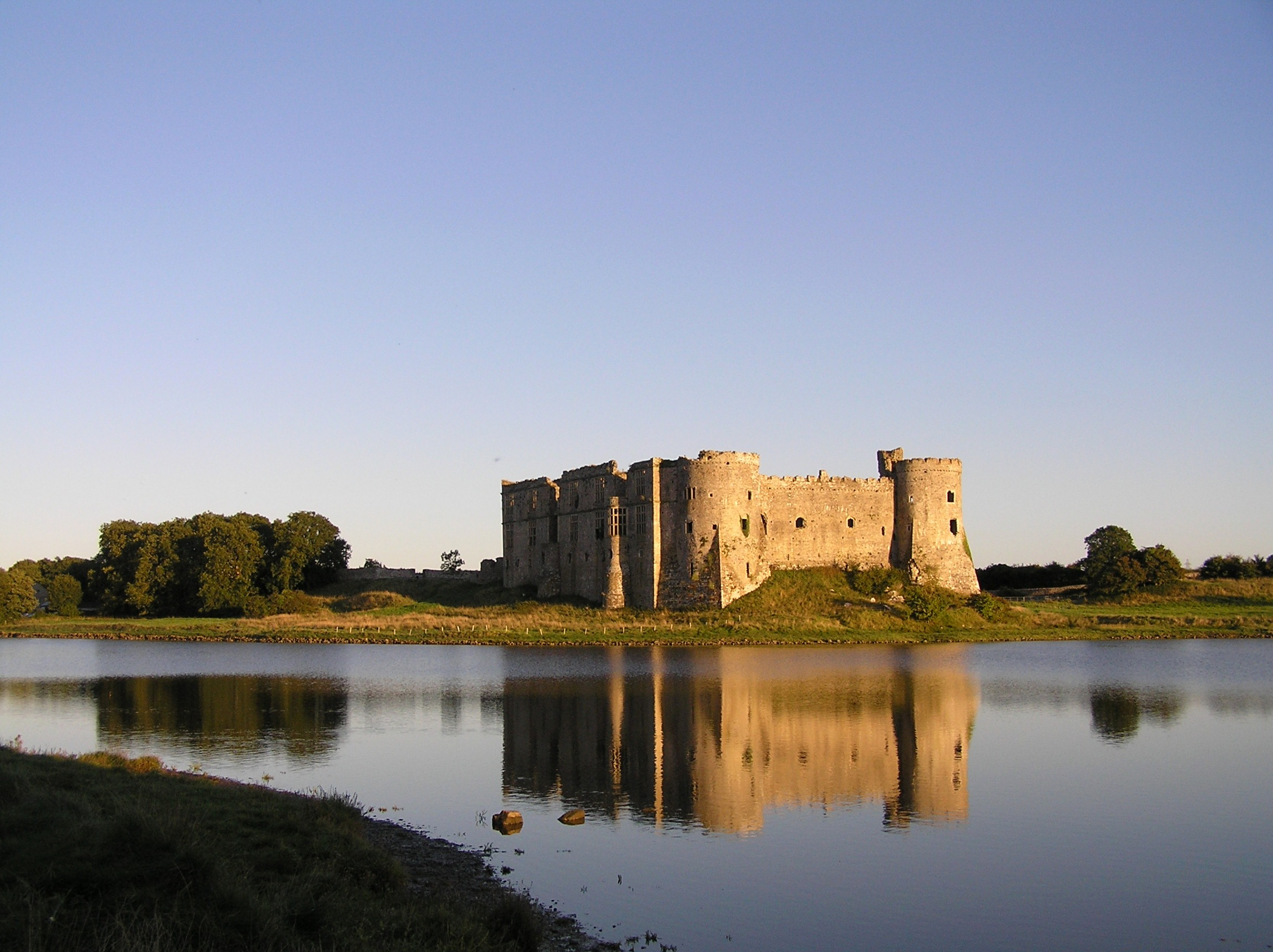 Carew Castle